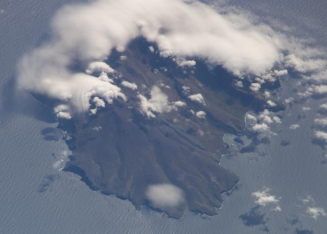 NASA astronaut image of Île de la Possession, Crozet Islands, in the Southern Indian Ocean